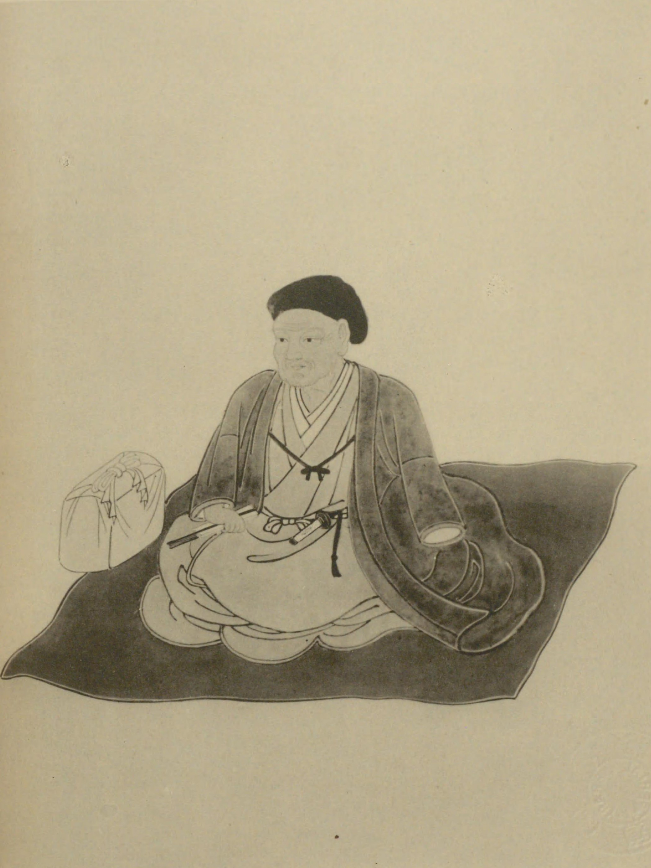 Portrait of Hatono Soha